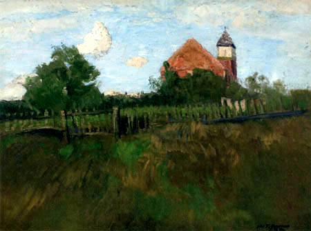 Die Worpsweder Kirche